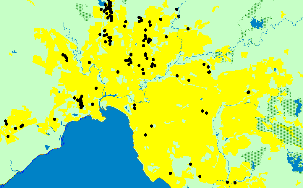 Lebanon-born residents in Melbourne, 2006 (one dot equals 100 such residents in a collection district)